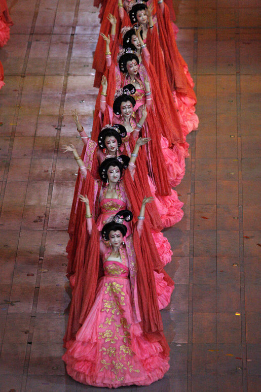 Actors perform during the Opening Ceremonies of the 2008 Summer Olympic Games Friday Aug. 8, 2008, at National Stadium in Beijing